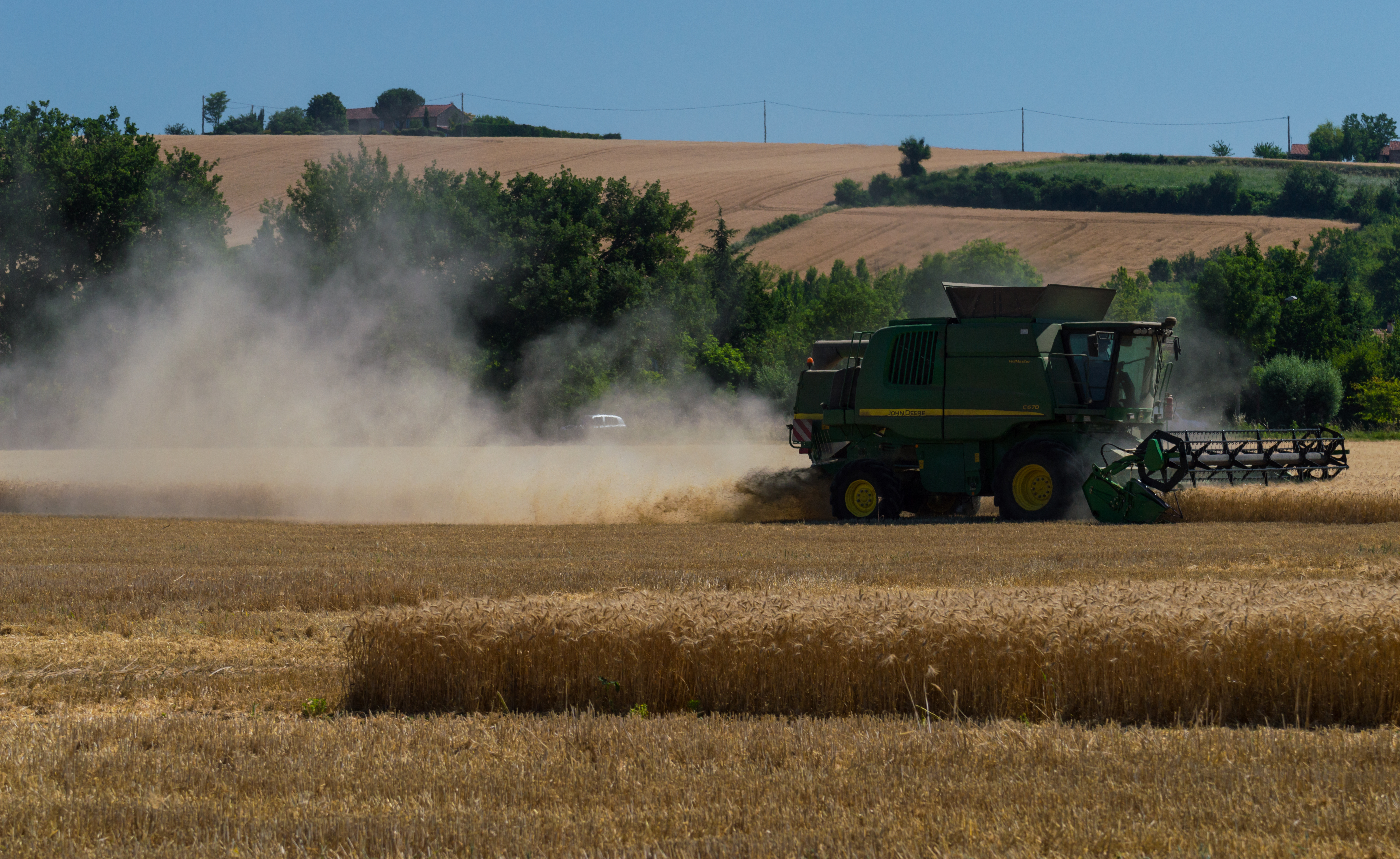 A combine harvester (John Deere C670) in a wheat field.